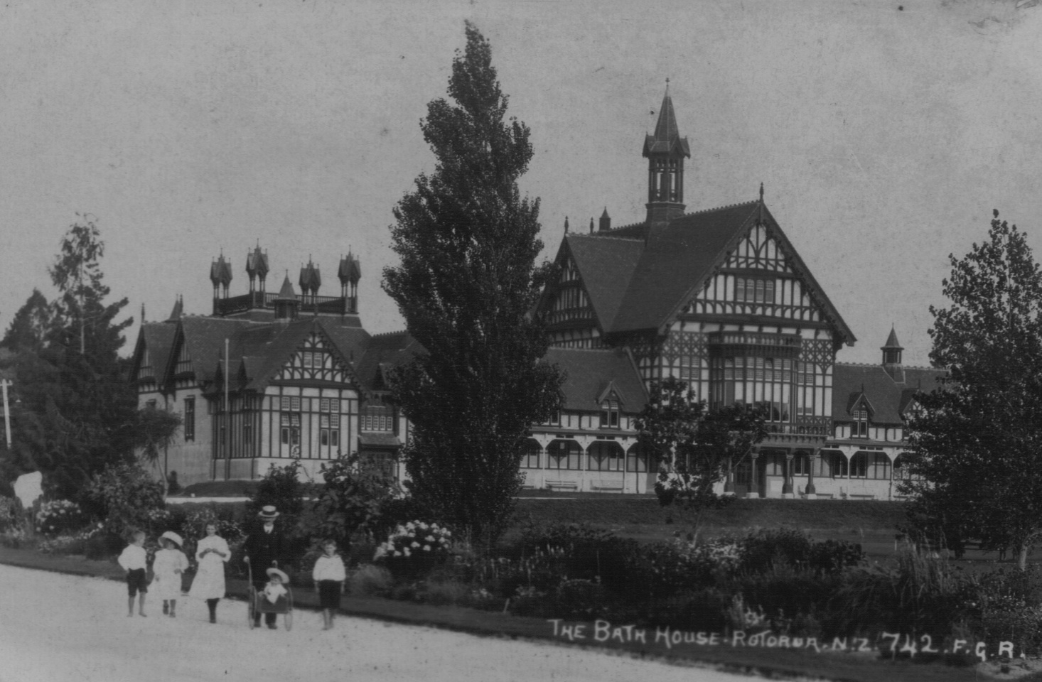 Bath house in Rotorua, New Zealand. New Zealand Historic Places Trust Register number: 141.